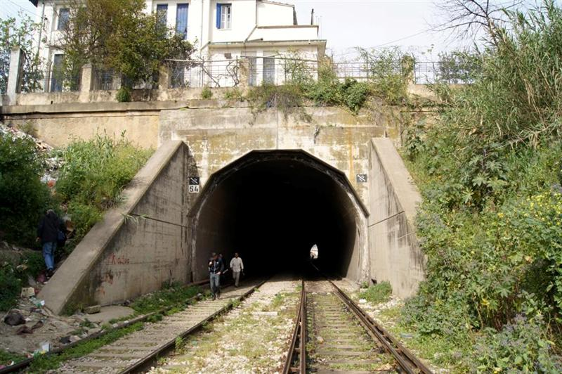 a tunnel at Thenia railway station